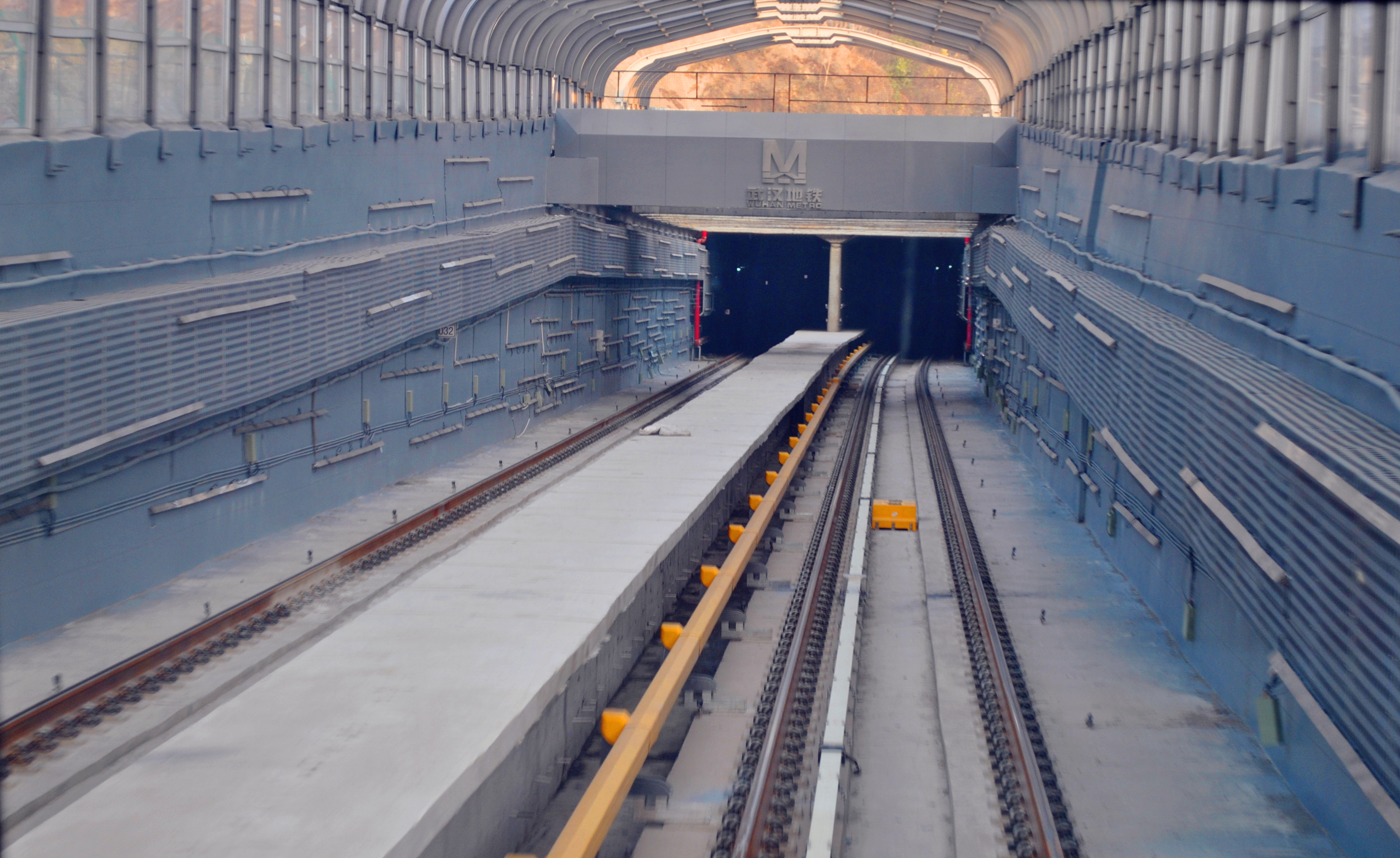 End of elevated sections on Wuhan's Line 4